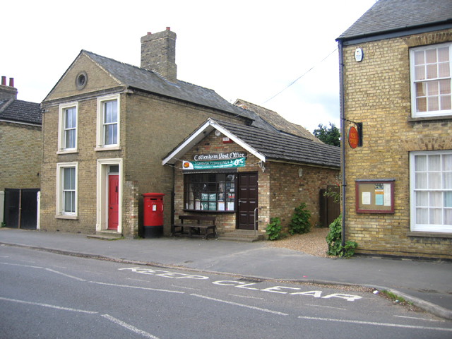 Post Office, Cottenham, Cambs. at 230 High Street.